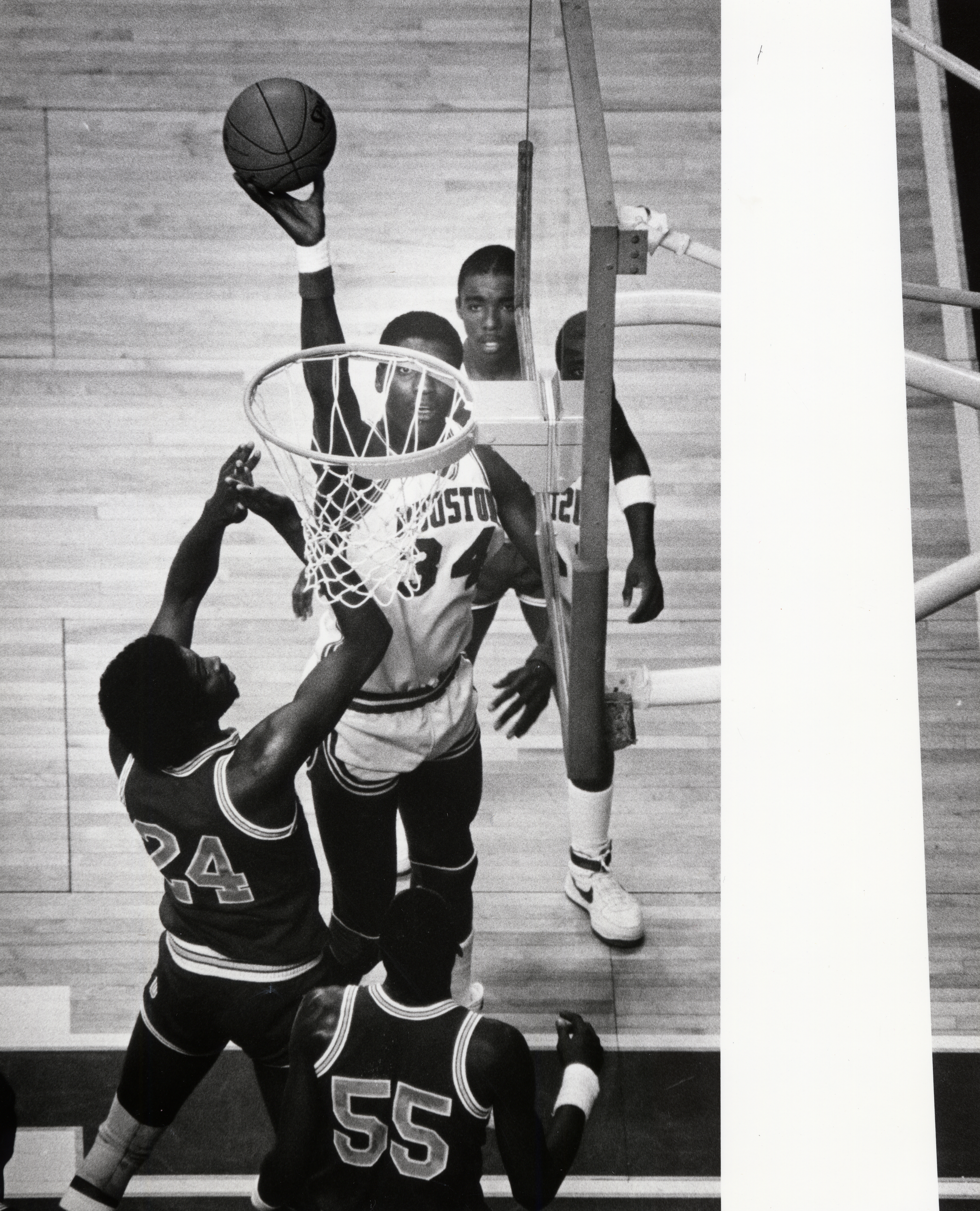 Hakeem Olajuwon playing basketball at the University of Houston.